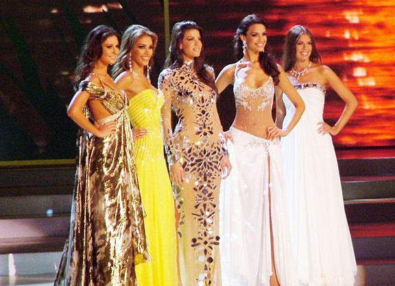 Miss Universe 2008, top 5